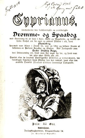 Cover page to a published Cyprianus text, promising the interpretation of dreams and fortunetelling. Danish language, 1916